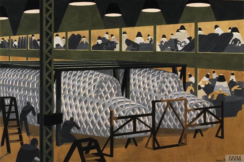 A view across an aircraft assembly factory.